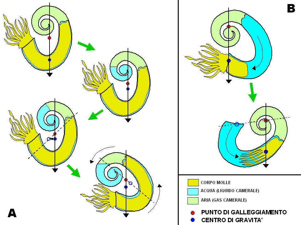 two hyptheses of buoyancy control by heteromorph scaphicone ammonites. A) Kakabadze & Sharikadze (1993): the ammonites have been able to control the position of the shell shifting the fluids into the phragmocone ; B) Monks & Young (1997): the soft body of these ammonites did not fill all the body chamber and the animal was able to modify the centre of gravity of the shell moving within the body chamber. Text in italian.